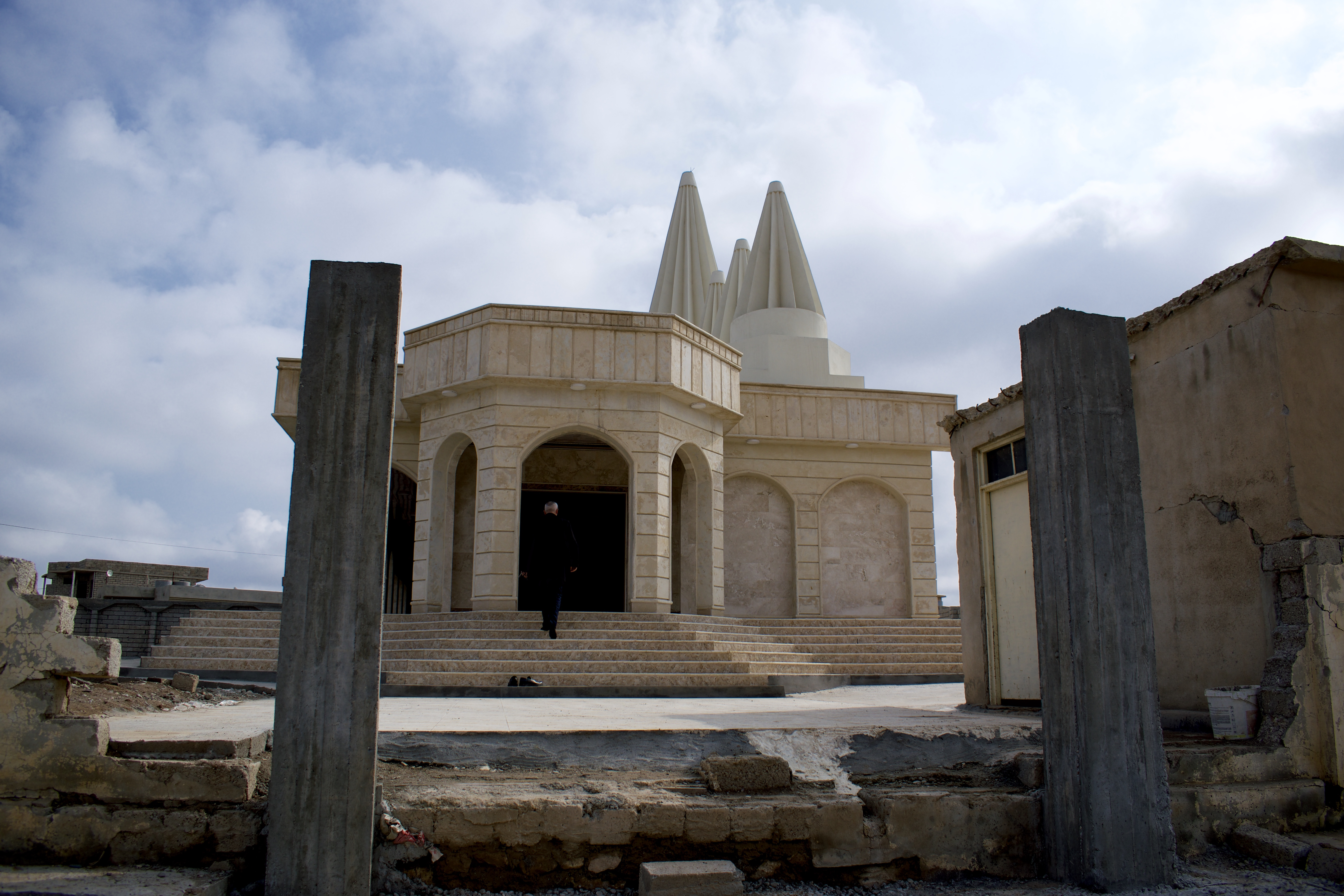 Shrine of Shekhse Bate in Babera village near Fayidah between Duhok and Mosul. It was destroyed by ISIS in 2014, but rebuilt when the village was repopulated again by Yezidis.